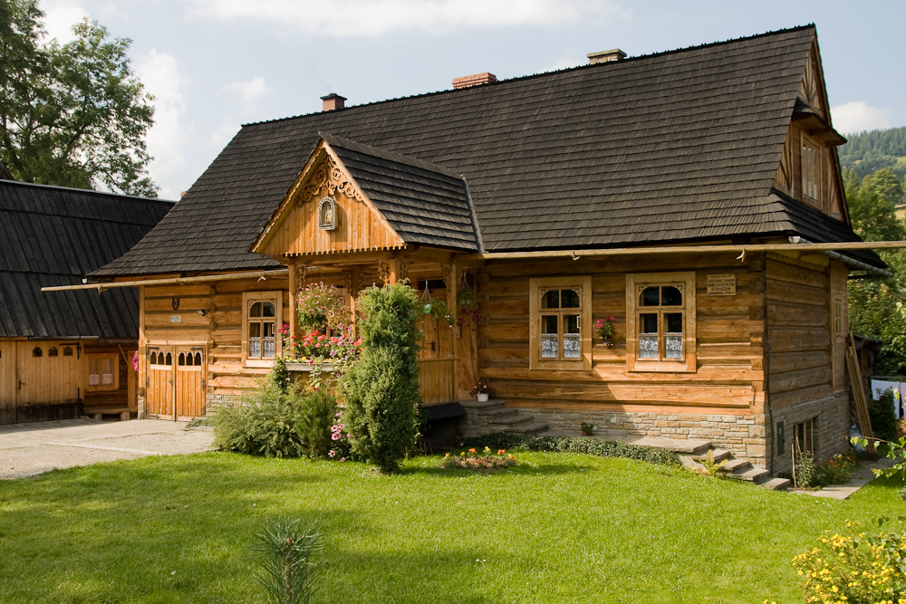 Highlander Cottage in Zakopane